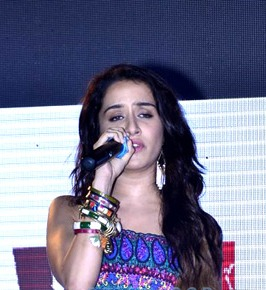 Shraddha Kapoor singing